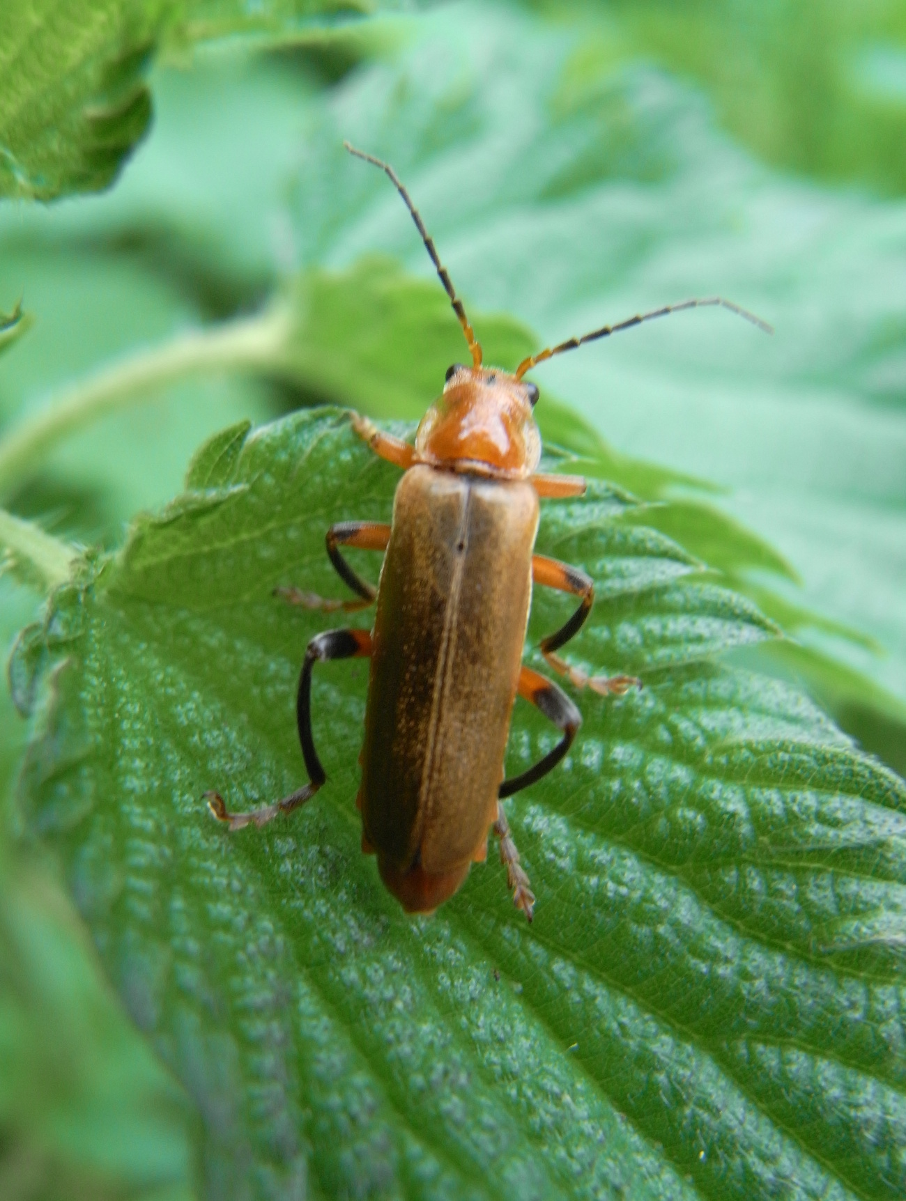 Soldier beetle (Cantharis livida)